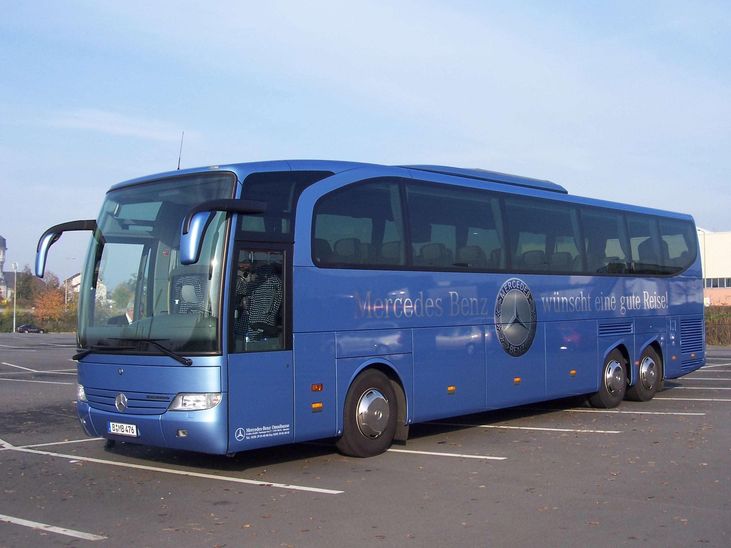 An EvoBus/Mercedes-Benz Travego coach (reg. B-MB 476) at MOT 2005 in Mannheim, Germany. My own photo from 13-nov-2005.